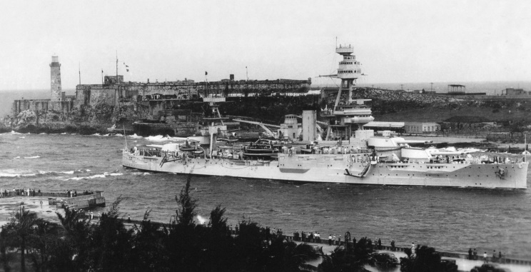 United States Navy battleship USS Texas (BB-35) entering Havana Harbor in February 1940. Morro Castle is in the background.